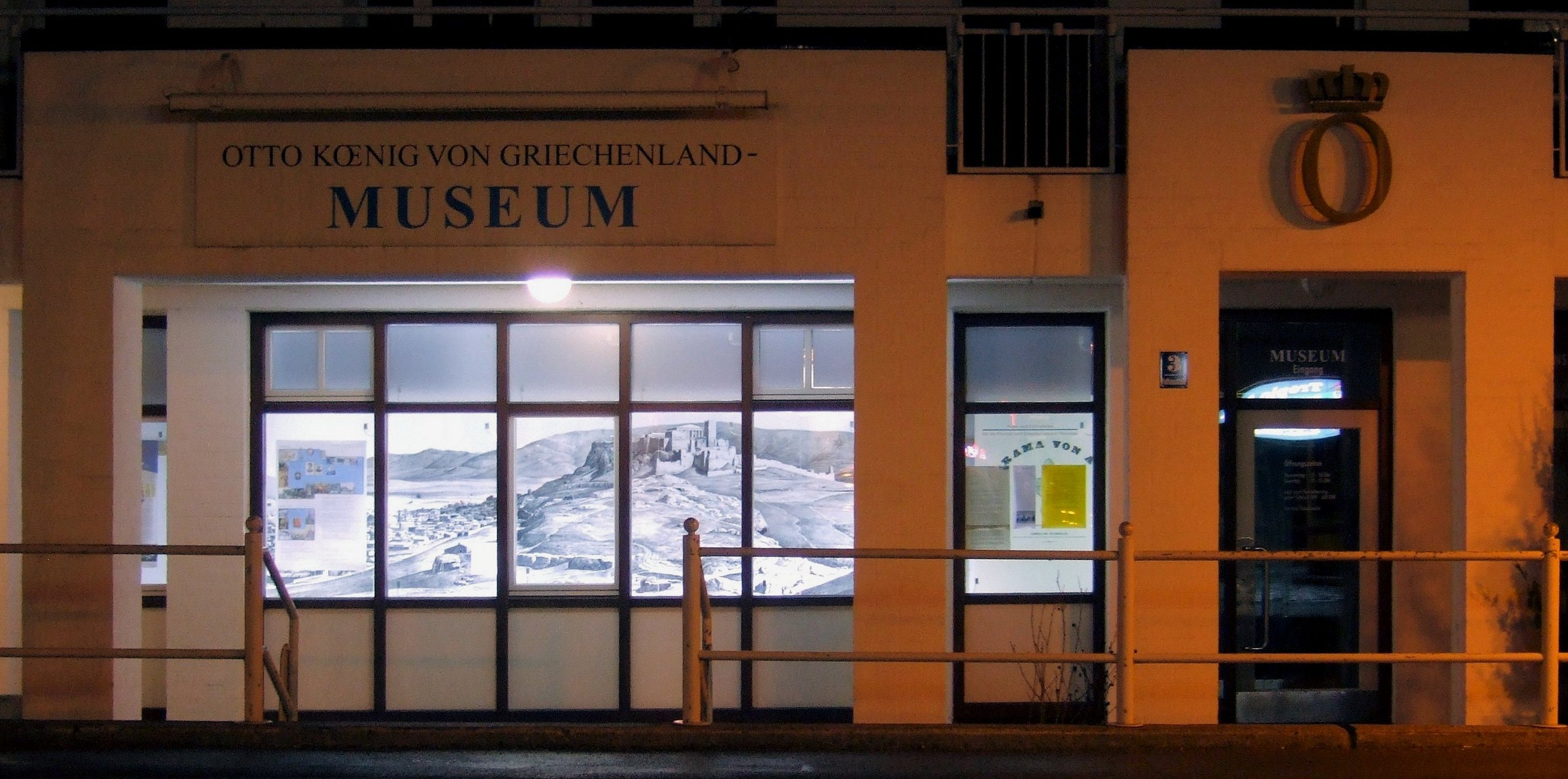 Ottobrunn: Otto King of Greece Museum at night